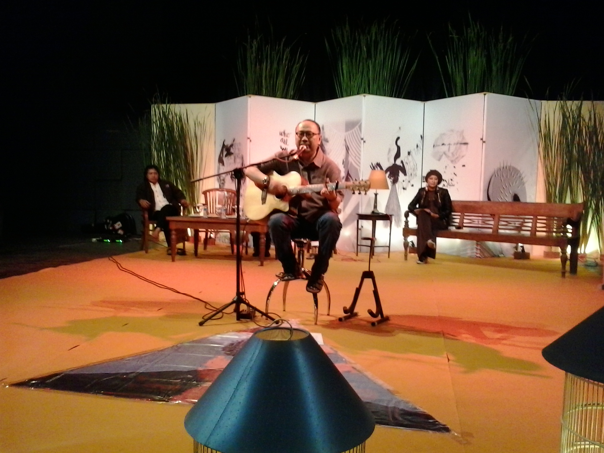 Ebiet G. Ade, Indonesian singer and poet